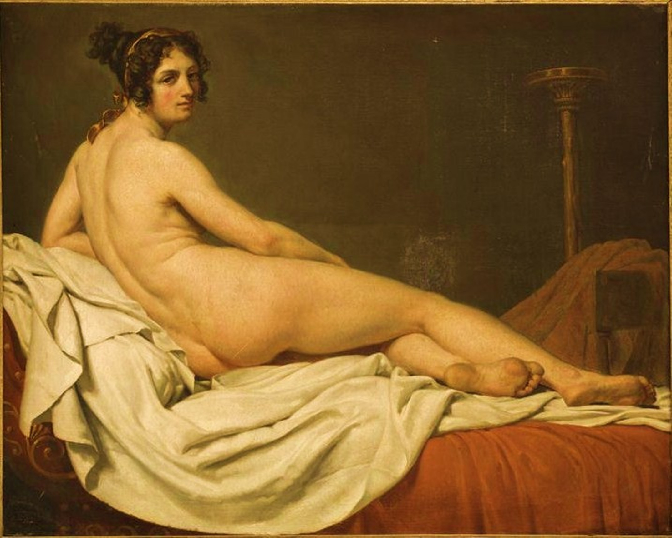 Jeanne-Françoise Julie Adélaïde Récamier (4 December 1777–11 May 1849), known as Juliette, was a French society leader, whose salon drew Parisians from the leading literary and political circles of the early 19th century.